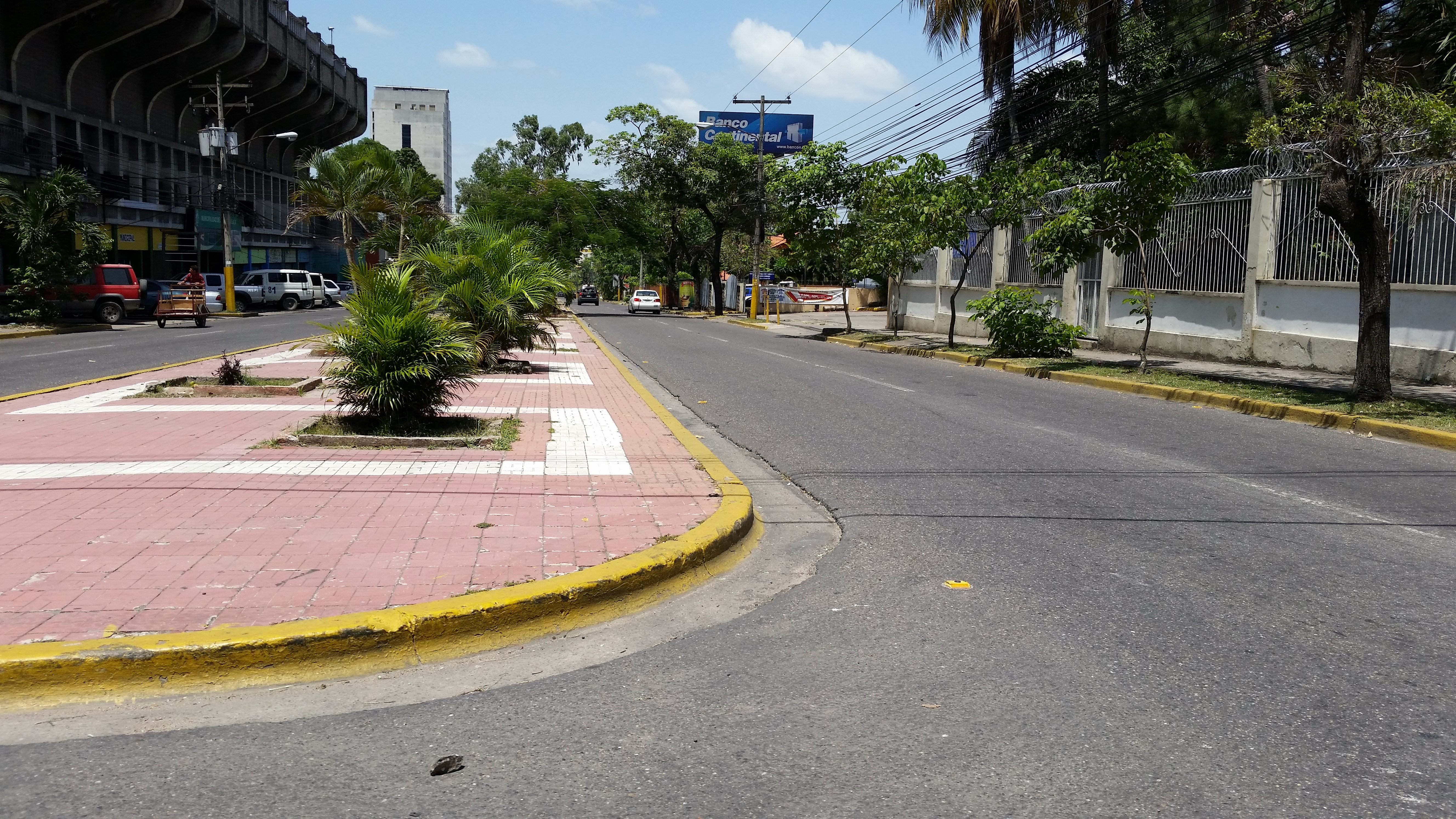 Boulevard Morazán near the Francisco Morazán Stadium. Picture taken June 23rd 2015. In San Pedro Sula, Honduras